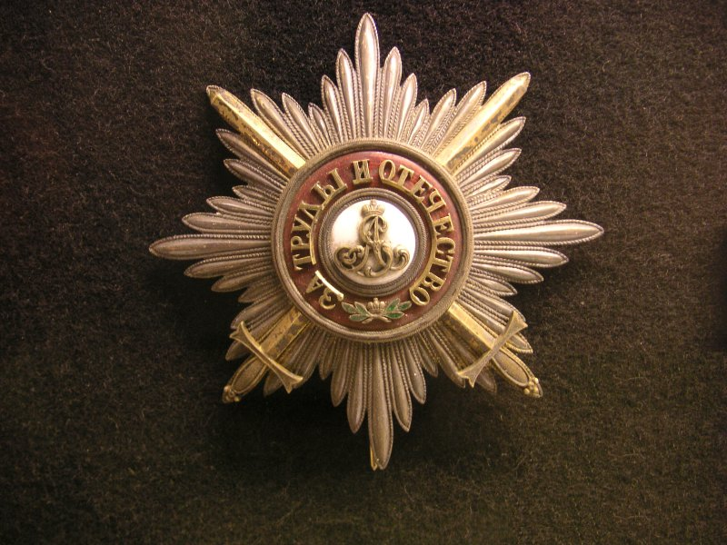 Cross version of the Order of Saint Alexander Nevsky, front few, Warsaw's Museum of the Polish Army.